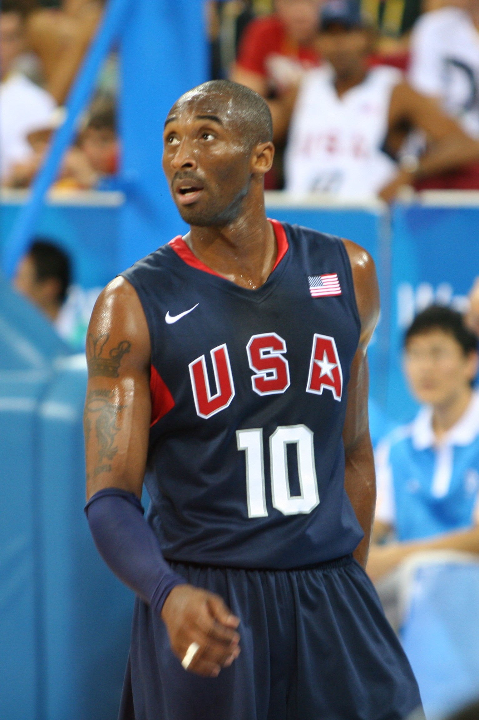 Beijing Olympics: Men's Basketball Semifinals, Kobe Bryant